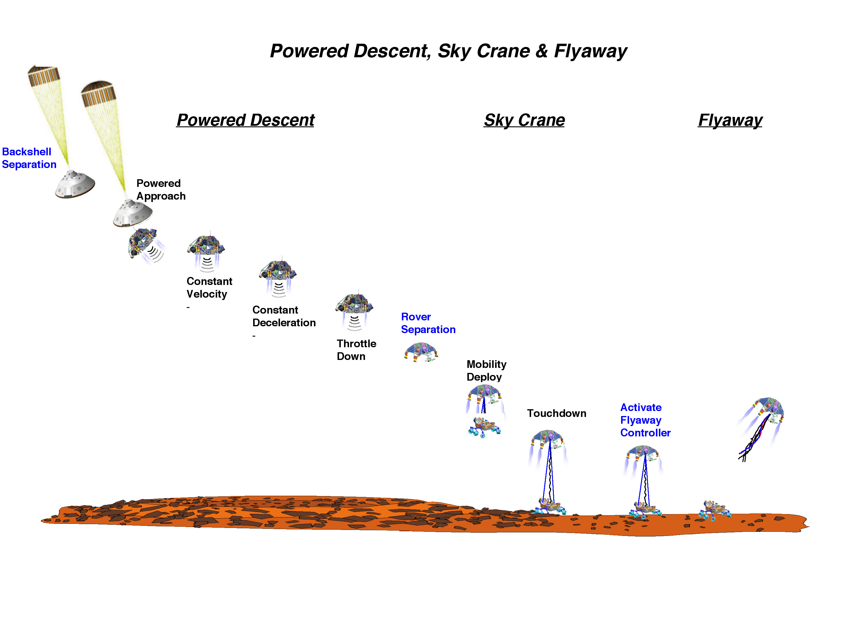 Entry, descent, and landing for the Mars Science Laboratory mission will break down into four parts: Guided Entry, Parachute Descent, Powered Descent and Sky Crane.